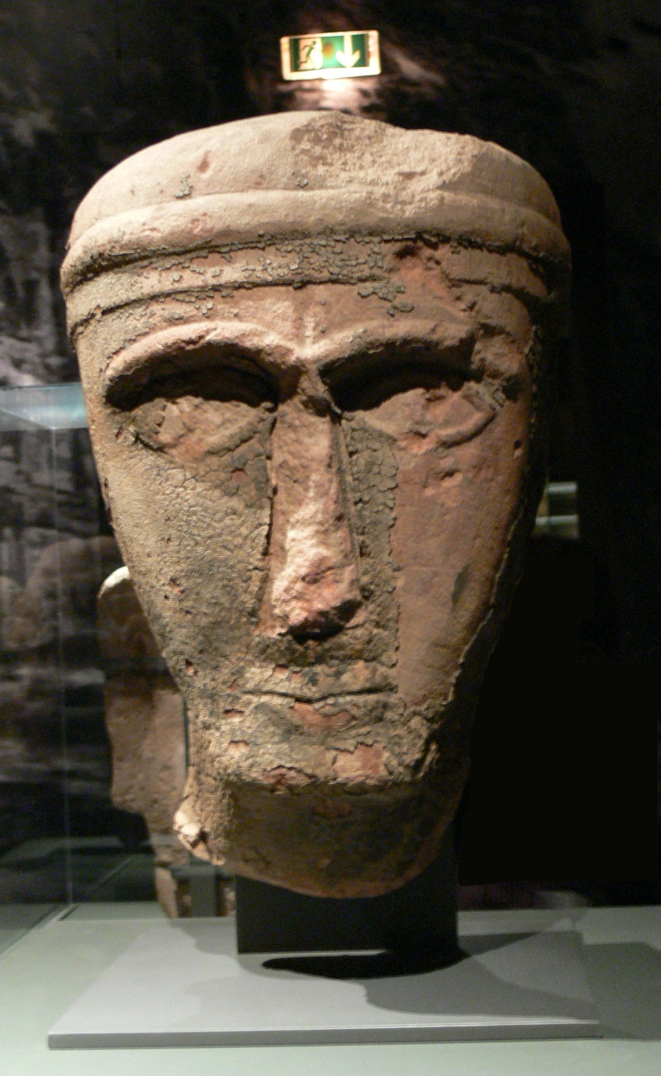 Pergamon Museum ( Berlin ). Exhibition "Roads of Arabia": Head of a statue ( 4th/3rd century BC ), red sandstone with traces of tar, 55x30x28 cm, from Al-'Ula ( Department of Archaeology Museum, King Saud University, Riyadh ).